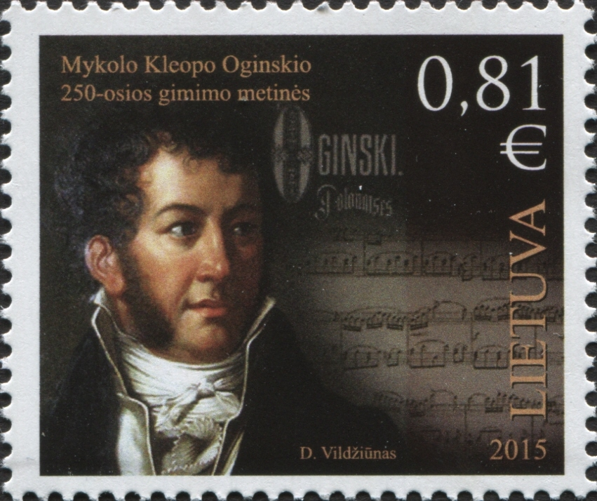 Stamps of Lithuania, 2015